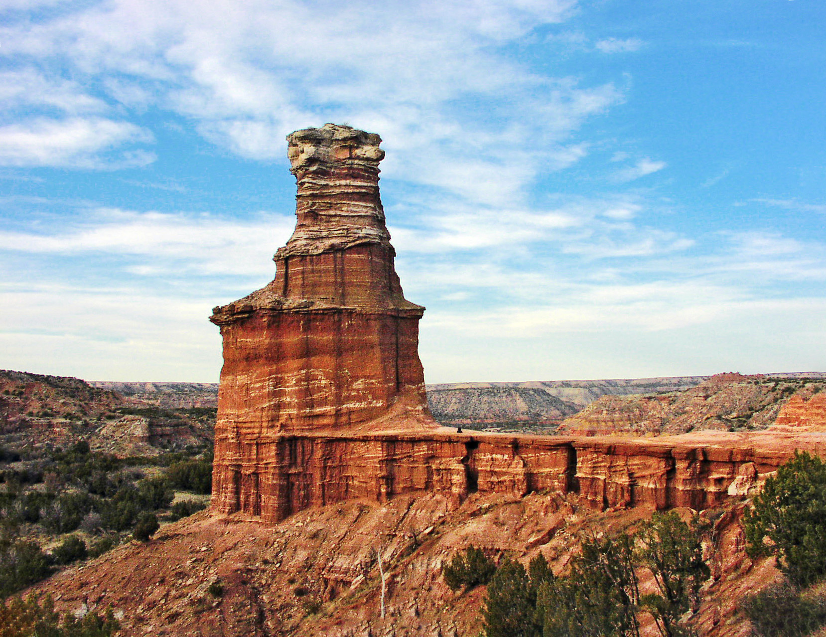 The "lighthouse" formation in Palo Duro Canyon.